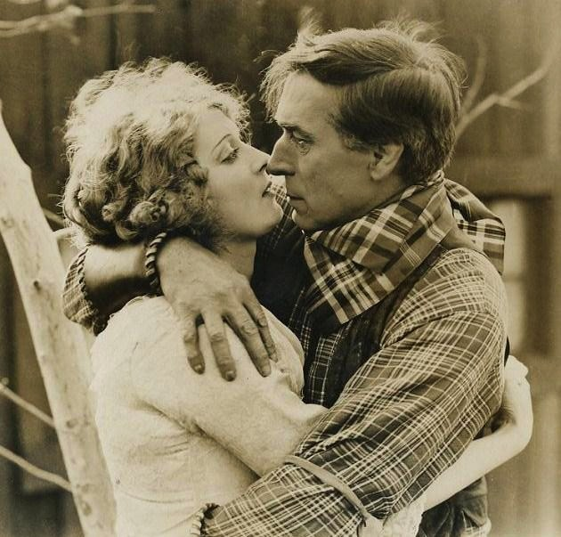 Jane Novak and William S. Hart in Three Word Brand (1921) (original image damaged, modified and cropped : see source)